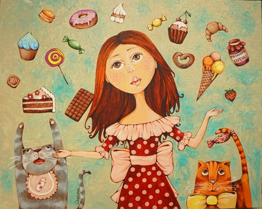 Daria's illustration to one of her books